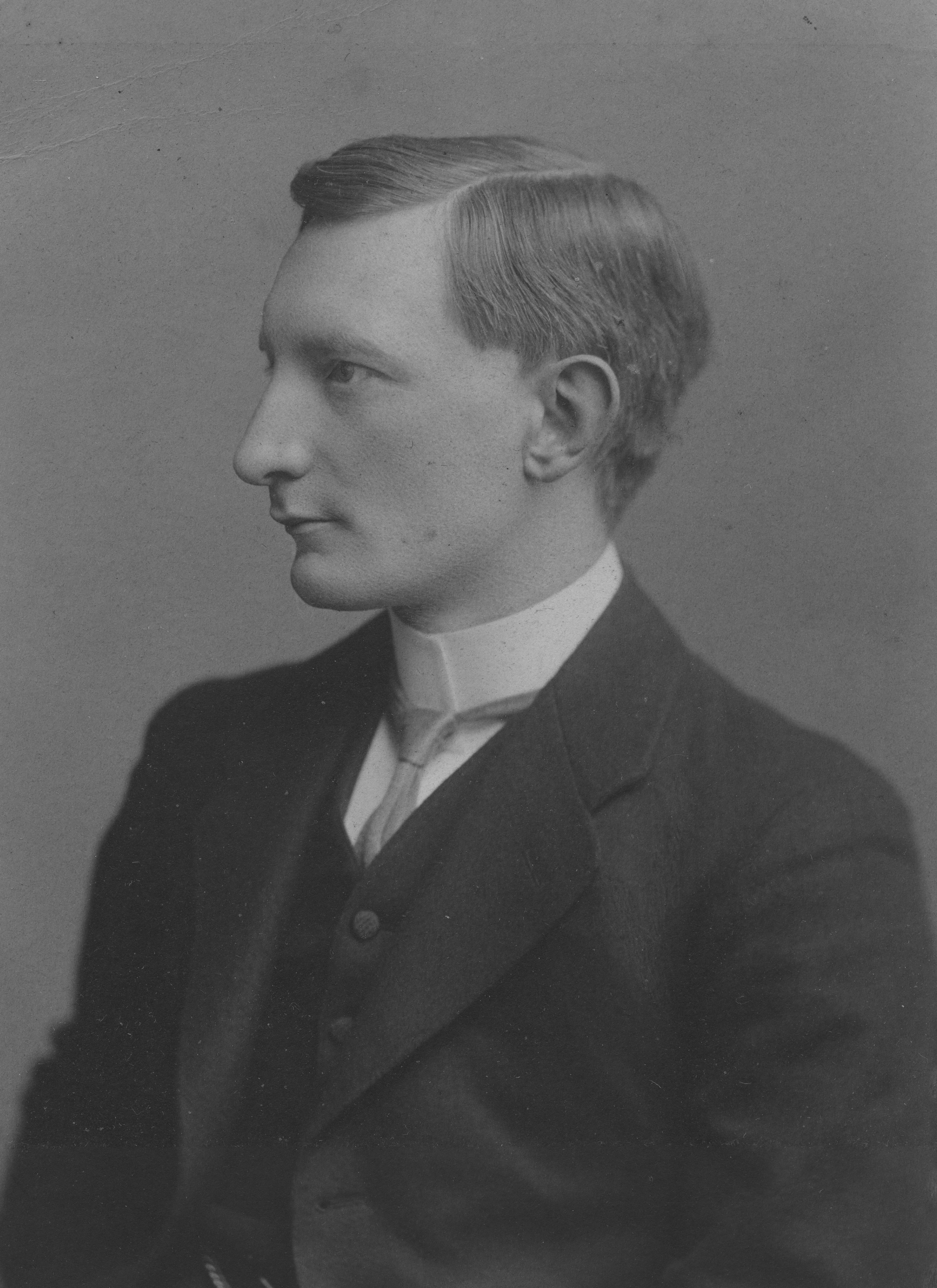 William Beveridge , 1909 IMAGELIBRARY/1161 Persistent URL: William Henry Beveridge (1879-1963) was a student at the London School of Economics in 1903-04 and its Director from 1919-37. His most famous contribution to society is the Beveridge Report (officially, the Social Insurance and Allied Services Report) of 1942, the basis of the 1945-51 Labour Government's legislation program for social reform.